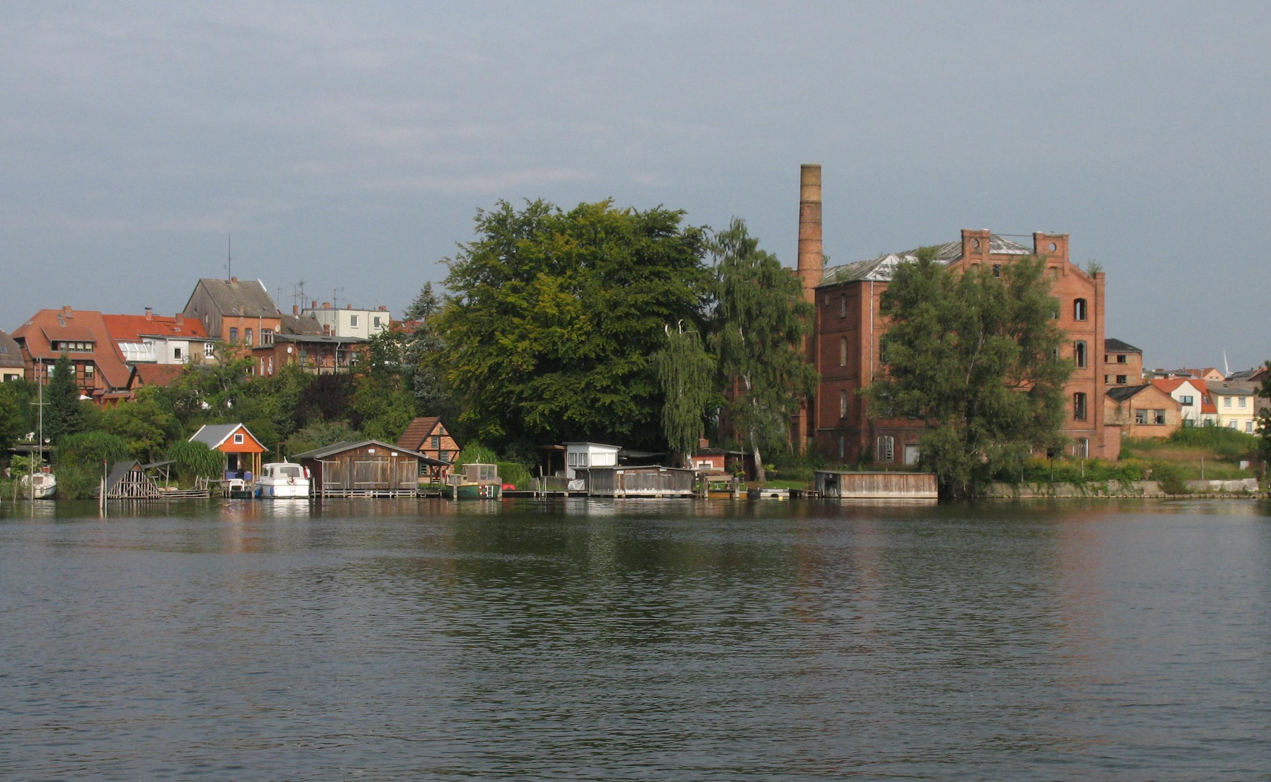 Lake Malchow and former weaving mill in Malchow in Mecklenburg-Western Pomerania, Germany